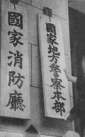 Establishment of National Rural Police